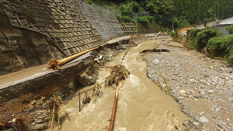 Kuro River was overflowed by the Northern Kyūshū Heavy Rain in Asakura City, Fukuoka Prefecture on July 8, 2017.